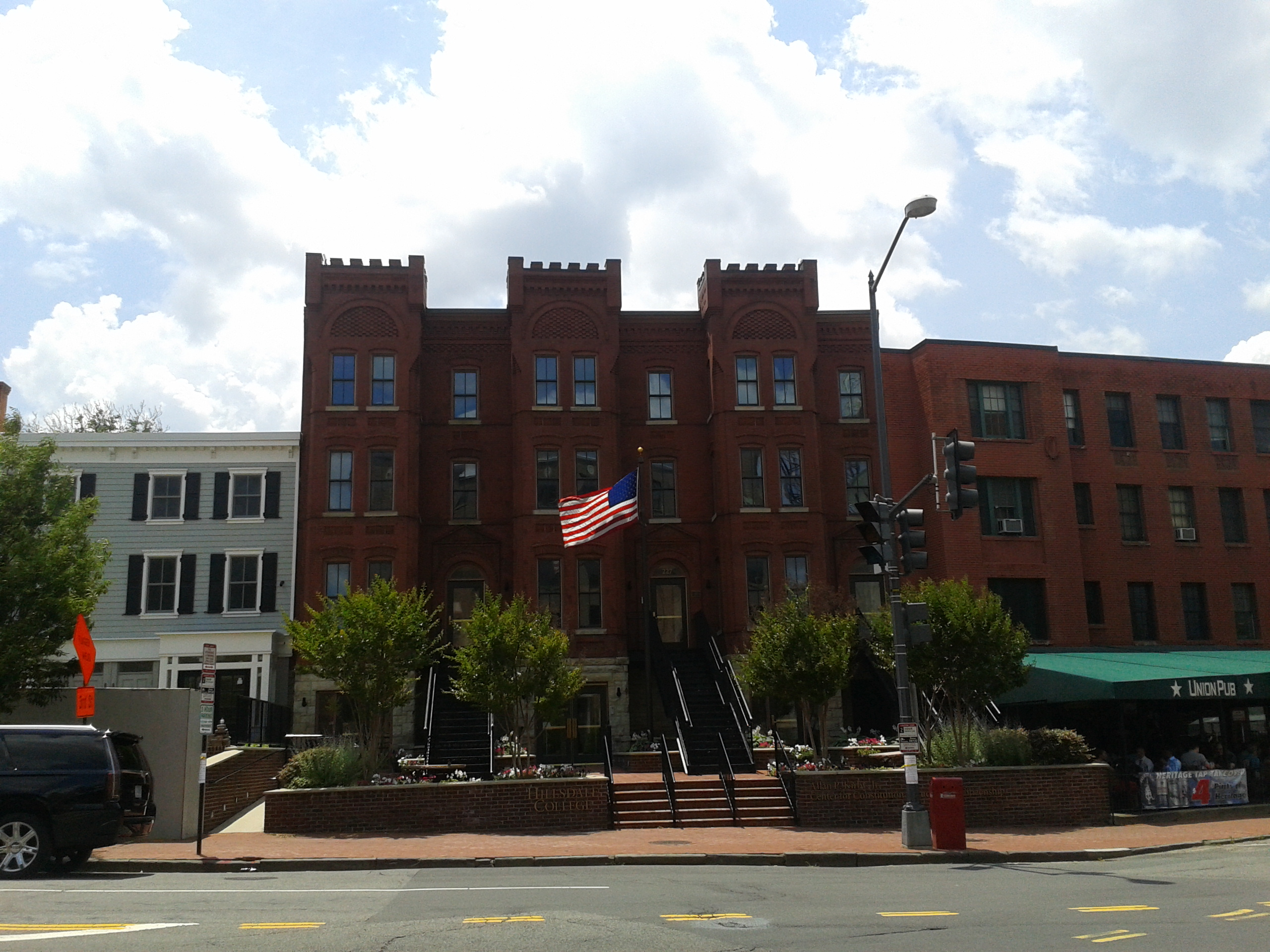 Hillsdale College's Allan P. Kirby, Jr. Center for Constitutional Studies and Citizenship in Washington, D.C.